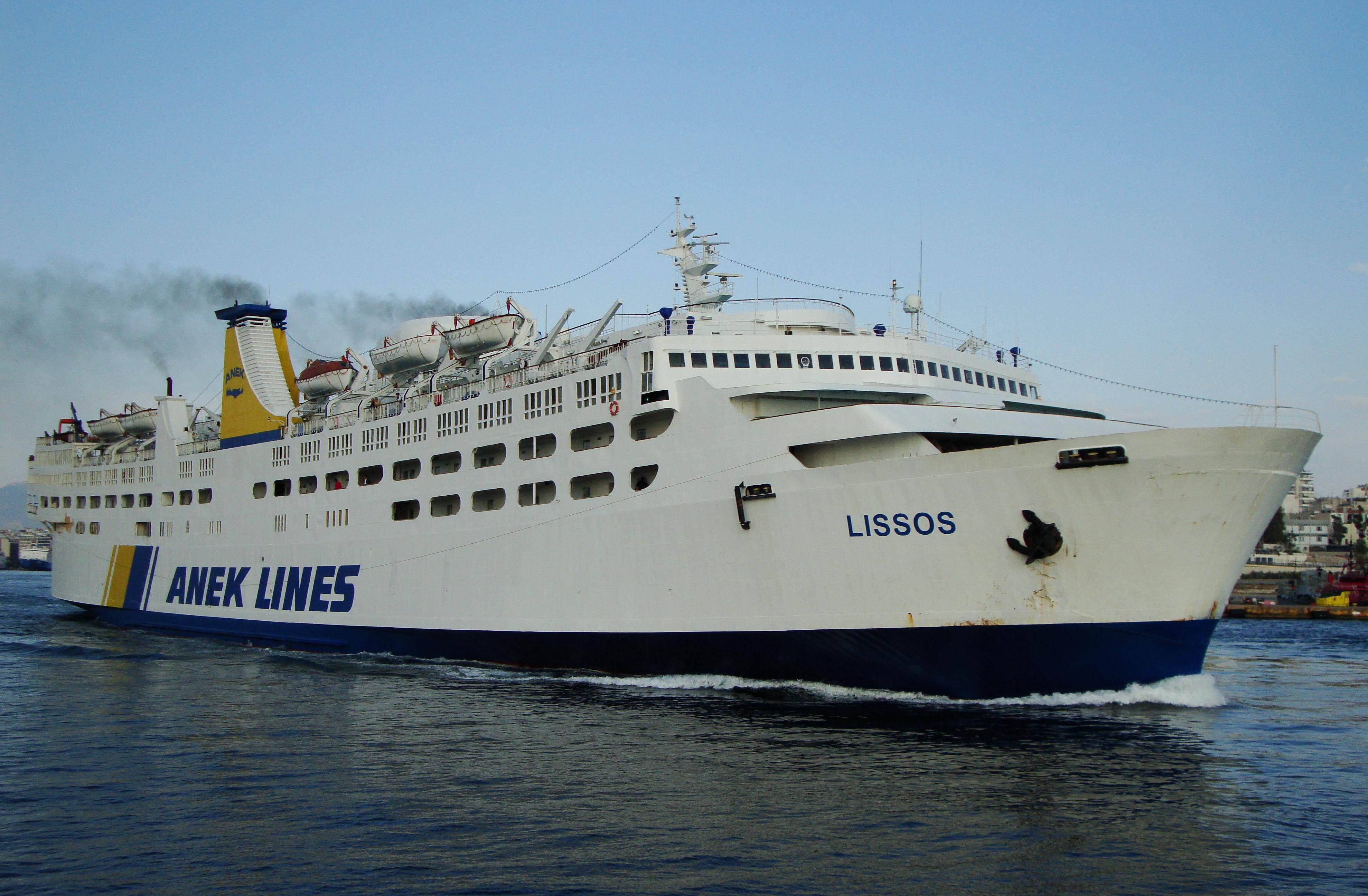 Ferry MS Lissos in Piraeus.